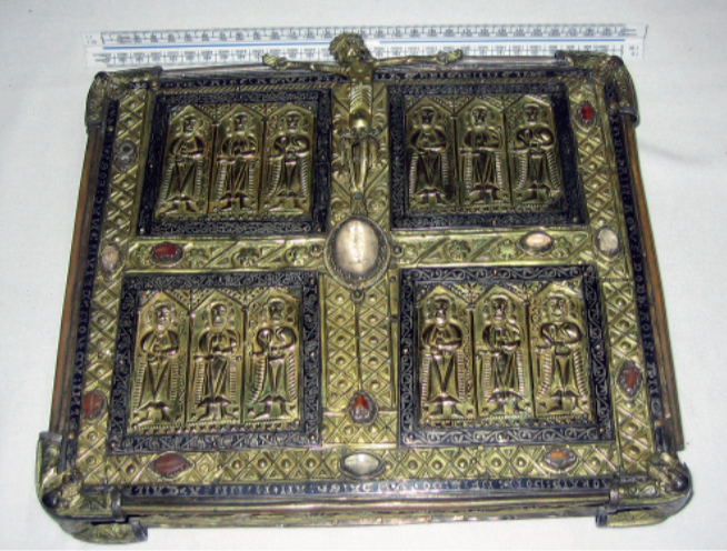 The Shrine of St. Cailin, produced by Abbot of Fenagh Abbey Tadhg O’Rodaighe in 1516 in County Leitrim, then West Breifne.